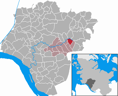 This map shows the area of the municipality Wittenbergen in the Kreis (district) Steinburg, Schleswig-Holstein, Germany.